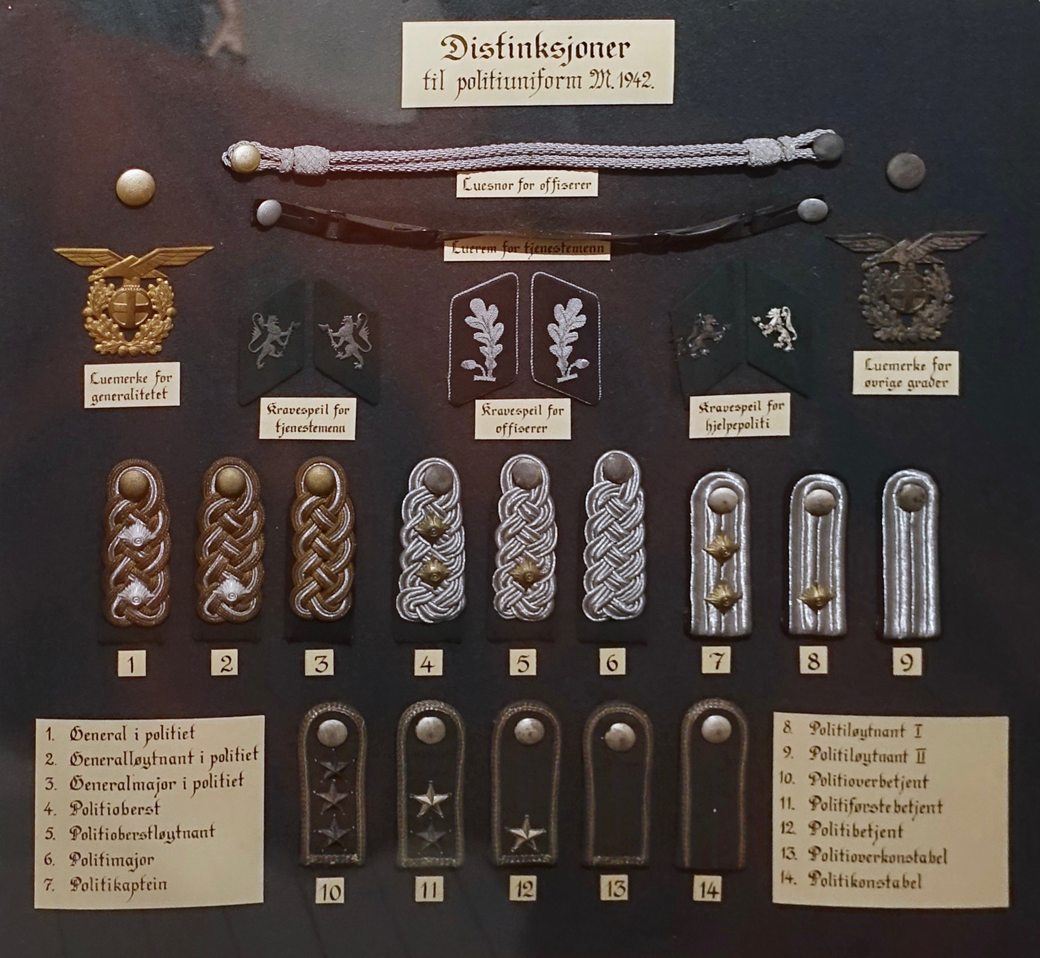 Norway in WW2: Uniform distinctions of "Statspolitiet" 1942, National Socialist armed police force of Norway 1941 – 1945. (Tyskinspirerte uniformsdistinksjoner for Nasjonal Samlings Statspolitiet 1942. Solkors, tjenestegrade mm). From exhibition in Justismuseet, Trondheim, Norway. Edited photo 2019-03-07.